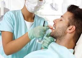 fitting dentures directly to patient's mouth. intraoral procedure.